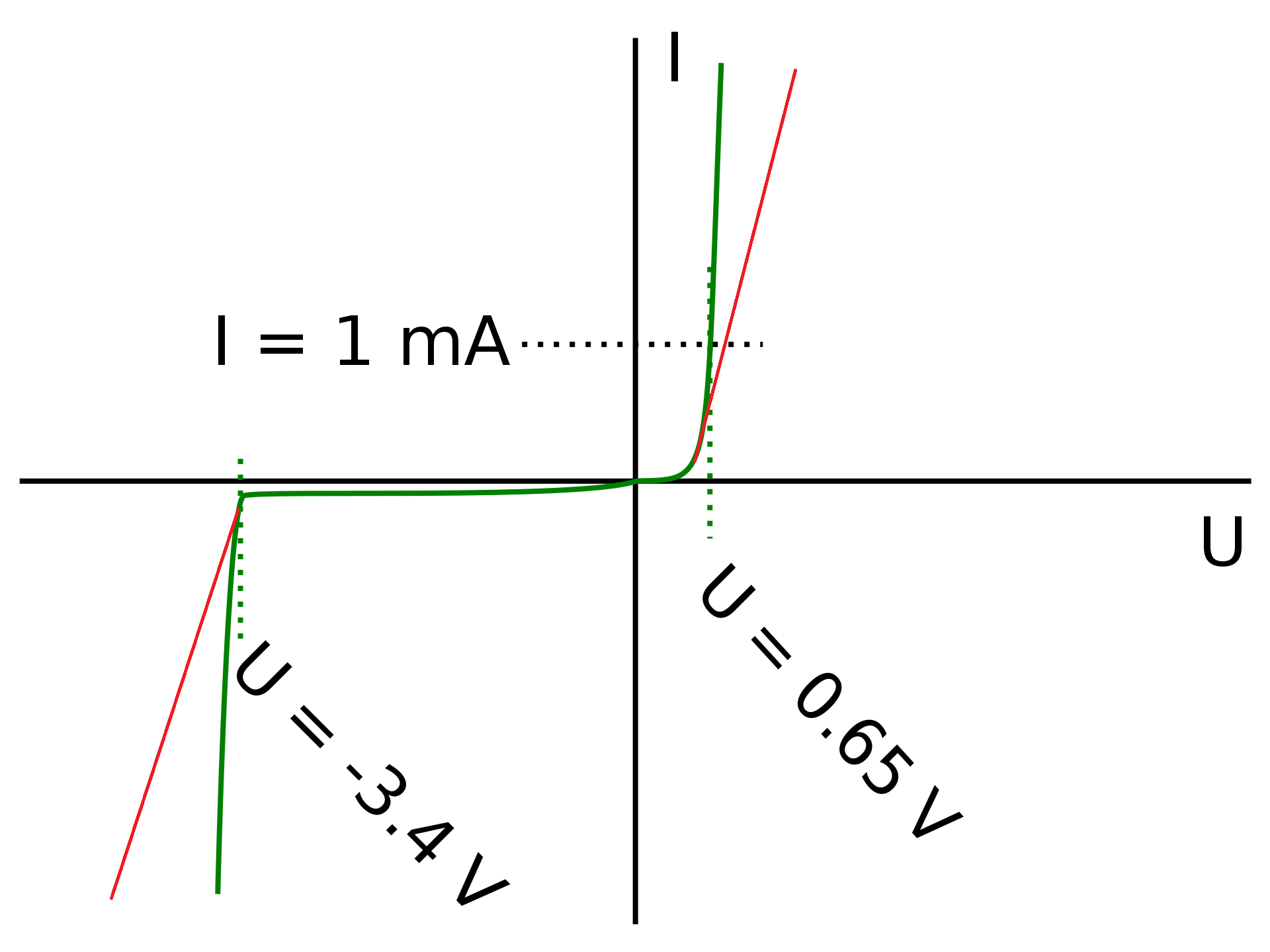 As Zener diodes heats up, their voltage increase slightly.